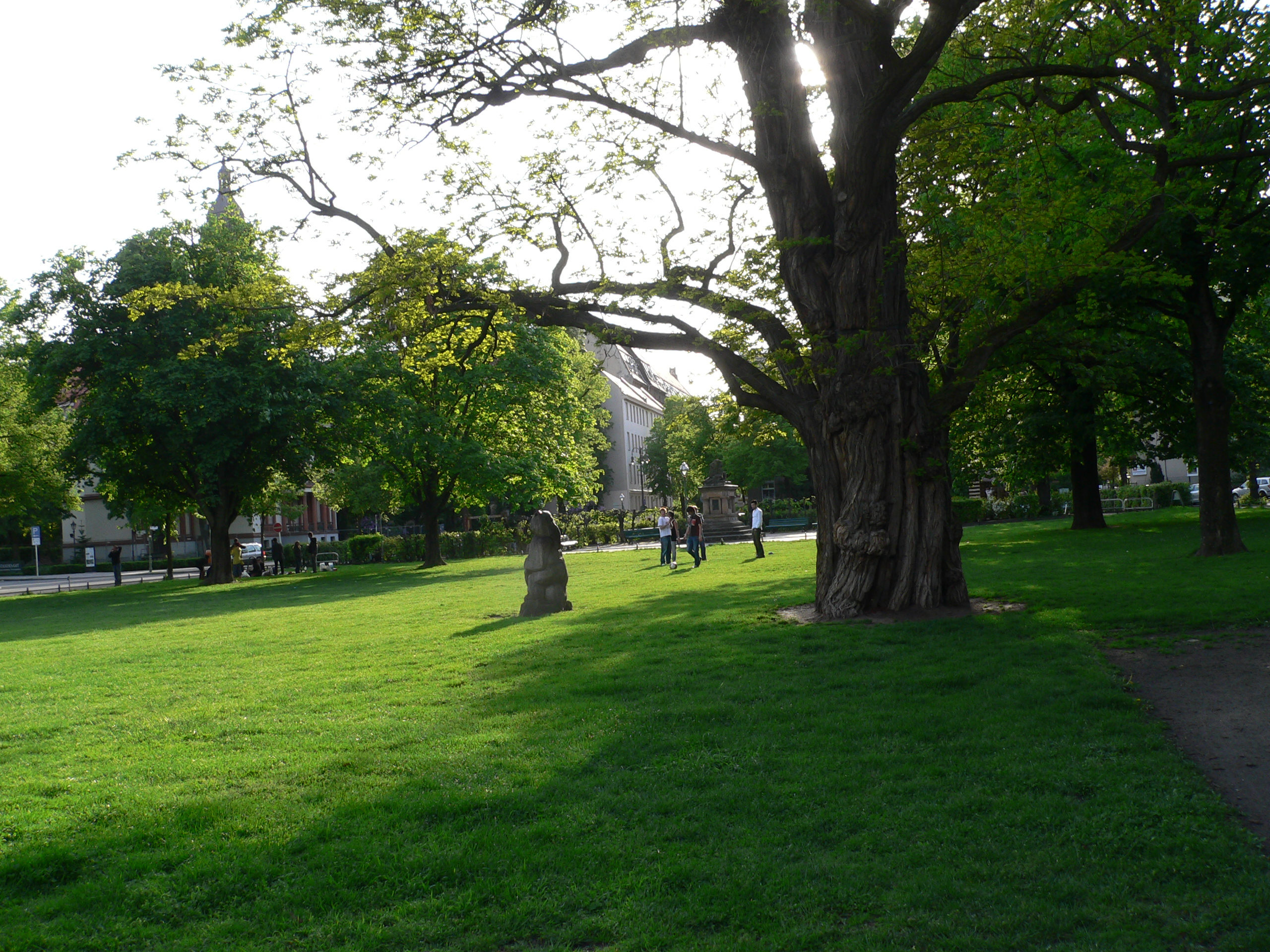 Alt-Lietzow overwiew